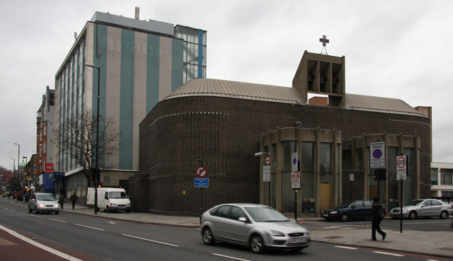 St. Gabriels Roman Catholic church on the corner of St. Johns Villas and Holloway Road.